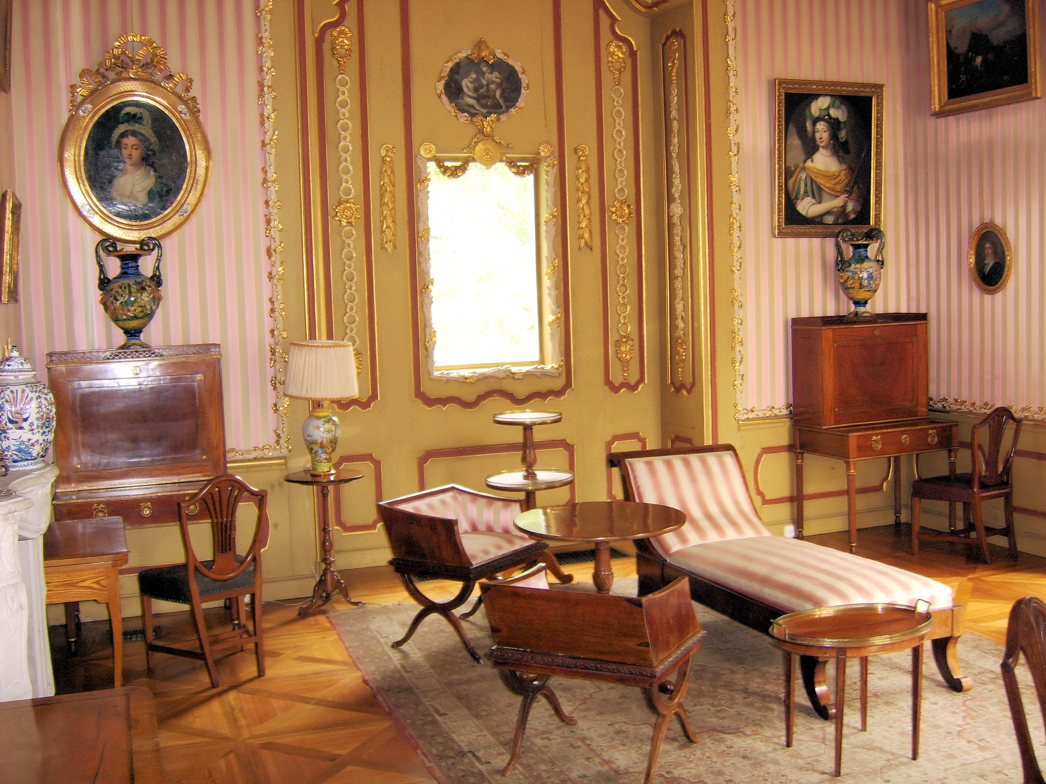 Boudoir In the walls: portraits of Queen Katrzyna Szwedzka as Minerva painted by Pieter Nason, portrait of Michał Radziwiłł and Dominika Radziwiłł. English furniture from the beginning of 19th century. Saxon candlestick in rococco style. In the display—cabinet breakfast set of Helena Radziwiłł made from Wedewood stoneware. Nieborów Palace Poland.